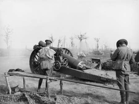 At the time this photograph was taken, this battery (then the 54th Australian Siege Battery RGA in the 10th Corps) was in action at a position on the Ypres-Comines Canal near Lock 8 and covering the front of the 2nd Anzac Corps. It had taken up this position on 25 August for the Ypres offensive, having been during the months of June, July to the middle of August, in action on the Nicapori Sector. The battery then consisted of six BL 8 inch Mk VI Howitzers and was commanded by Major McDonald DSO. At the particular moment the battery was engaged in a heavy bombardment of the enemy trenches preparatory to an attack which was to be launched on the morning of 16 September. The battery occupied this position for six weeks and during that time fired about 18000 rounds. When the offensive started, the range to the front line was about 5000, but owing to the enemy retreating and the range being increased to about 6500, the battery pulled out and took up a position at Half Way House near Hellfire Corner on 6 October. Identified, left to right: T/Sergeant Cullen; Sergeant Johnson (other side of gun); Gunner Roy. Place made: Western Front: Western Front (Belgium), Ypres Area